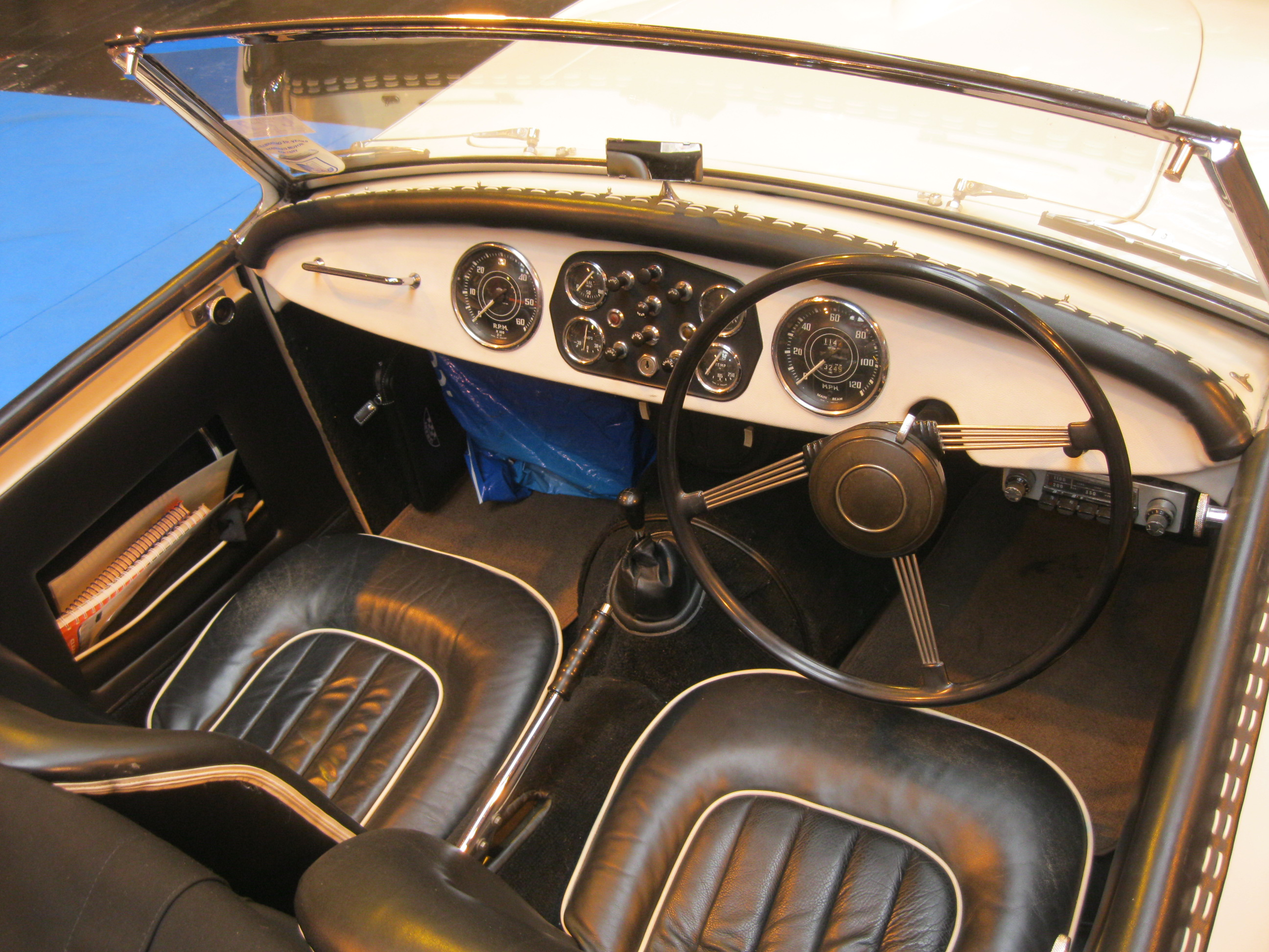 Pretty and very rare British Sports Car with Triumph TR2 mechanicals. Only built for one year between 1954 & 1955. Exhibited at the NEC Birmingham Classic Car Show, November 15-17, 2013